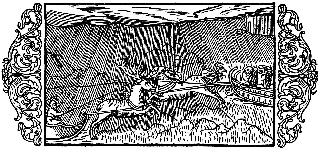 A scene from the north. To the left a Laplander’s sledge (ackja) pulled by a reindeer. To the right people travelling by horse and sleigh. It is snowing so much that the visibility is poor.